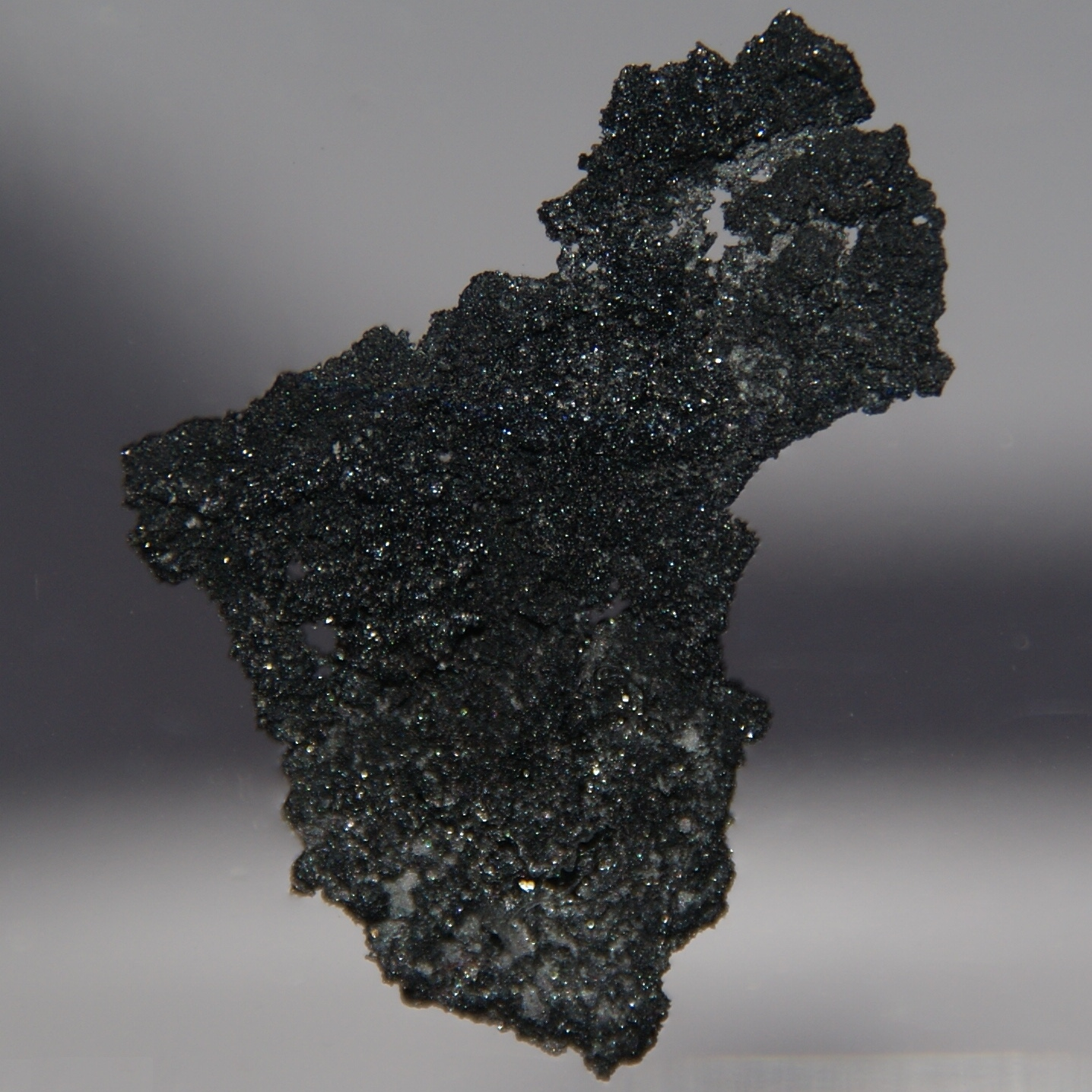 Crystalline Boron